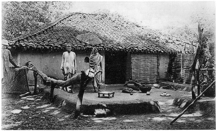 "Dhīmar or fisherman’s hut." from The Tribes and Castes of the Central Provinces of India Volume II Author: R. V. Russell